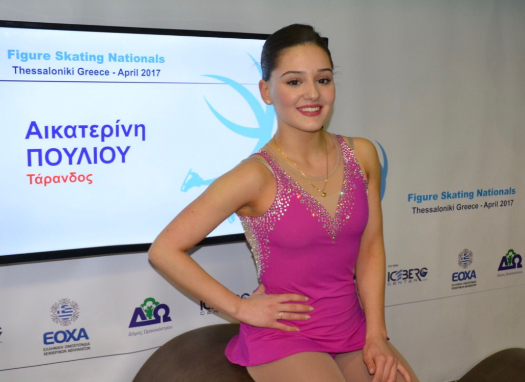 Poulios after Junior Short Program at the 2017 Greek National Figure Skating Championships in Thessaloniki, Greece.